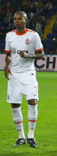 Fernandinho, midfielder for FC Shakhtar Donetsk